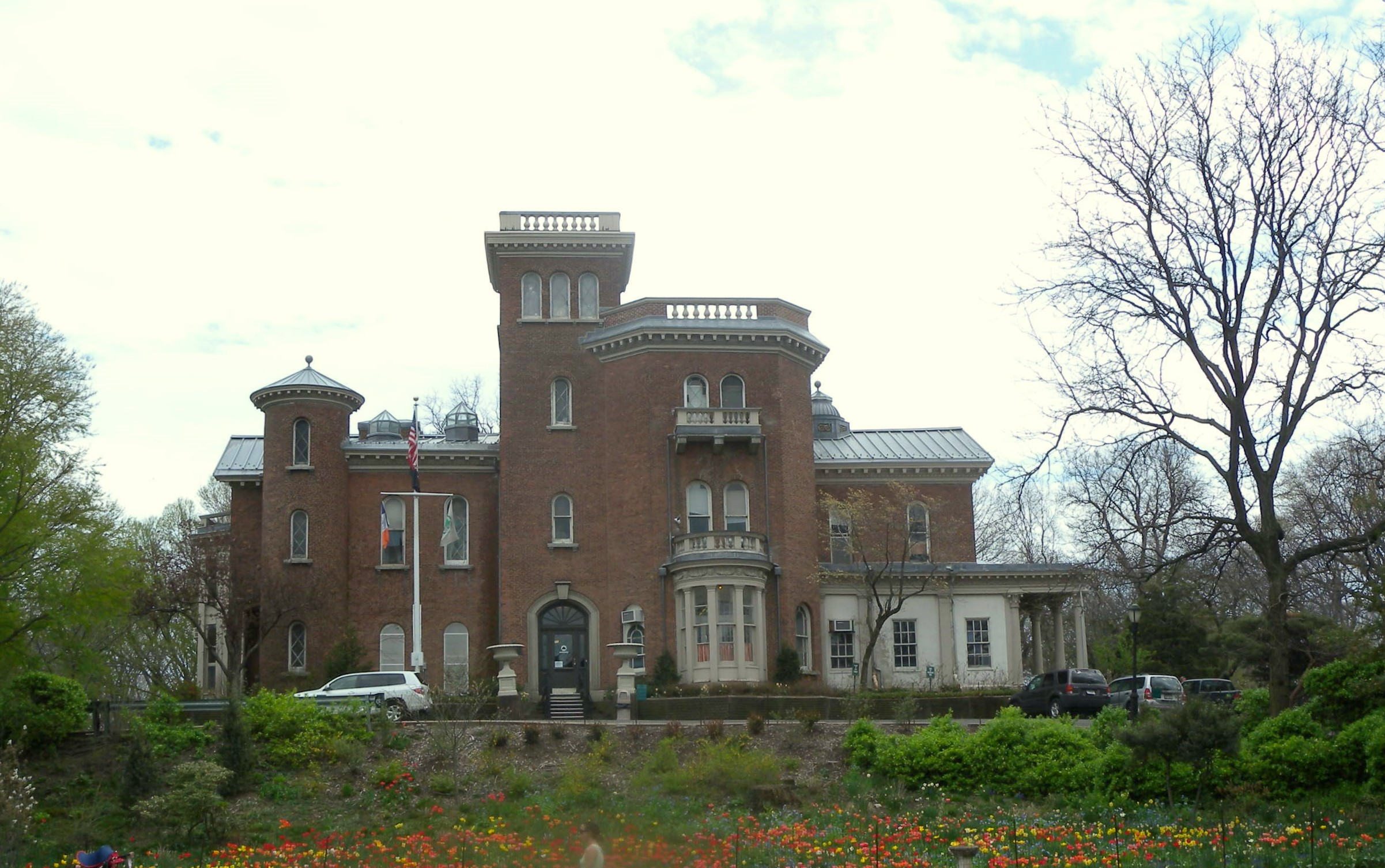 Looking east at the Villa on a cloudy midday.